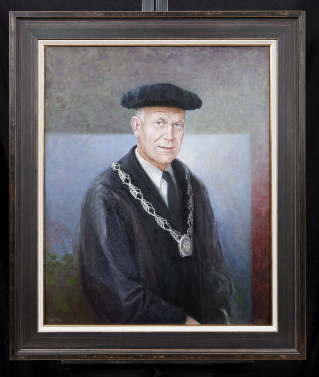 Painting of Amsterdam professor Taede Sminia (born 1946) by Rein Pol